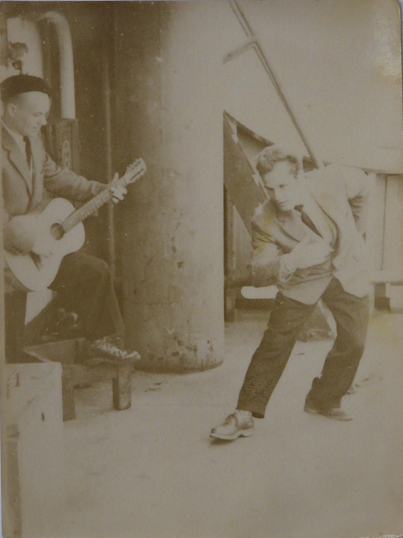 The tap dance or stepdance on board of Soviet steamship Nezhin. One Nikolay is dancing and another one is playing guitar. Really they are not dancing and playing - they are took positions for photo. Nikolay with guitar does not know how to play guitar. Photo dated between January 1960 and January 1961. This photo has name "Two Nikolays". The name of ship Nezhin was used for other vessel in Soviet movie Pirates of 20-th century.